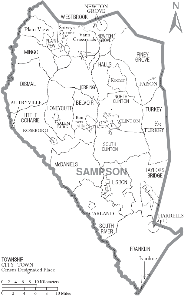 Map of Sampson County, North Carolina, United States with township and municipal boundaries